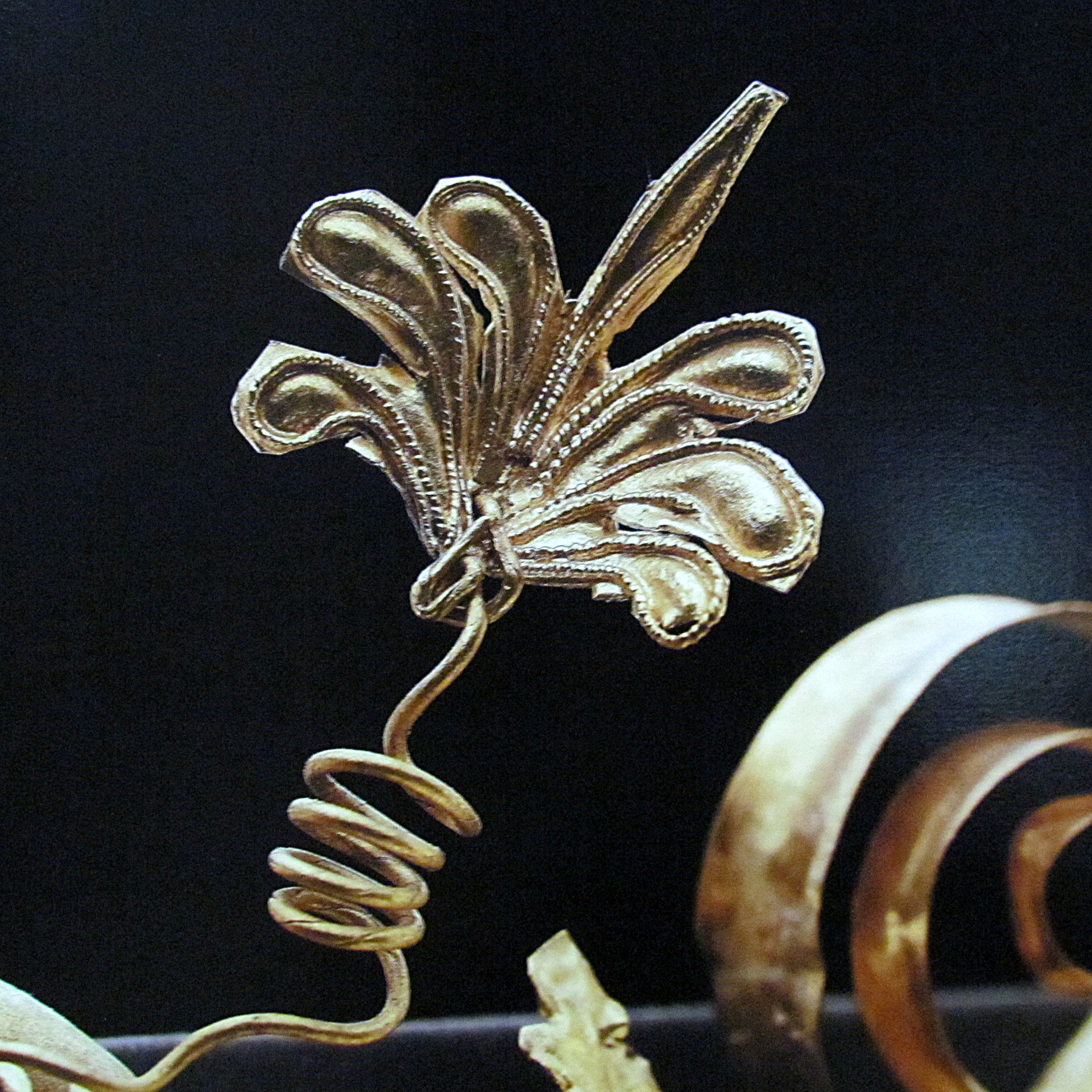 Palmette from Golden Ancient Macedonian Diadem